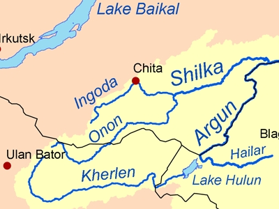 This is a map of the Amur River sources.